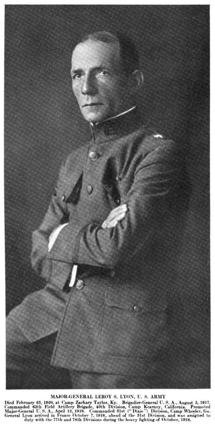 LeRoy Springs Lyon standing portrait